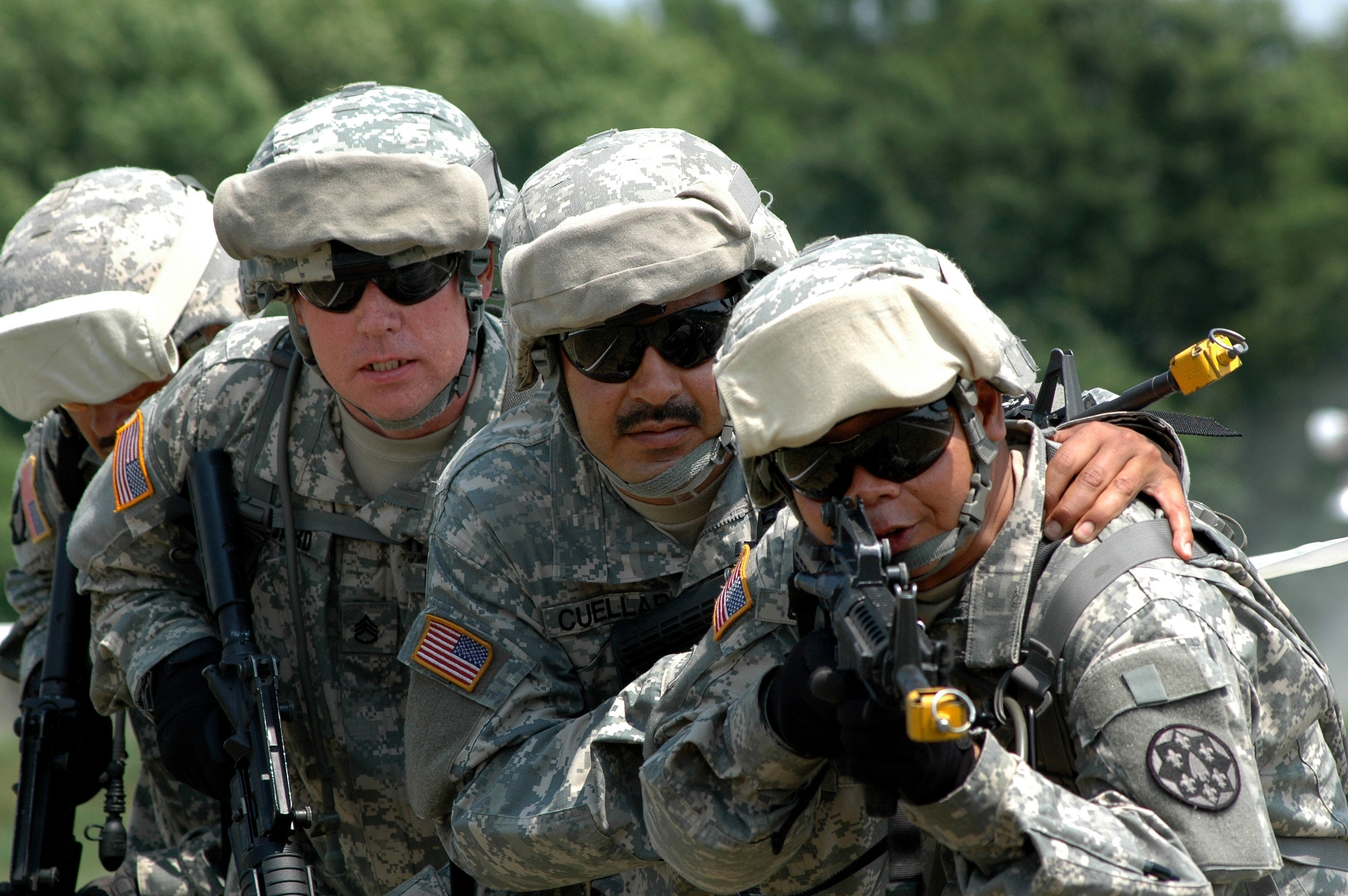 Changing global environment drives accelerated leader development. From left: sergeant Richard Olivas and staff sergeants Kevin Goddard, Ernesto Cuellar and Boone Carter maneuver into position during urban warfare training in July at Camp Atterbury, Ind. Changes in the global operation environment Army leaders face today will soon result in changes in such training.